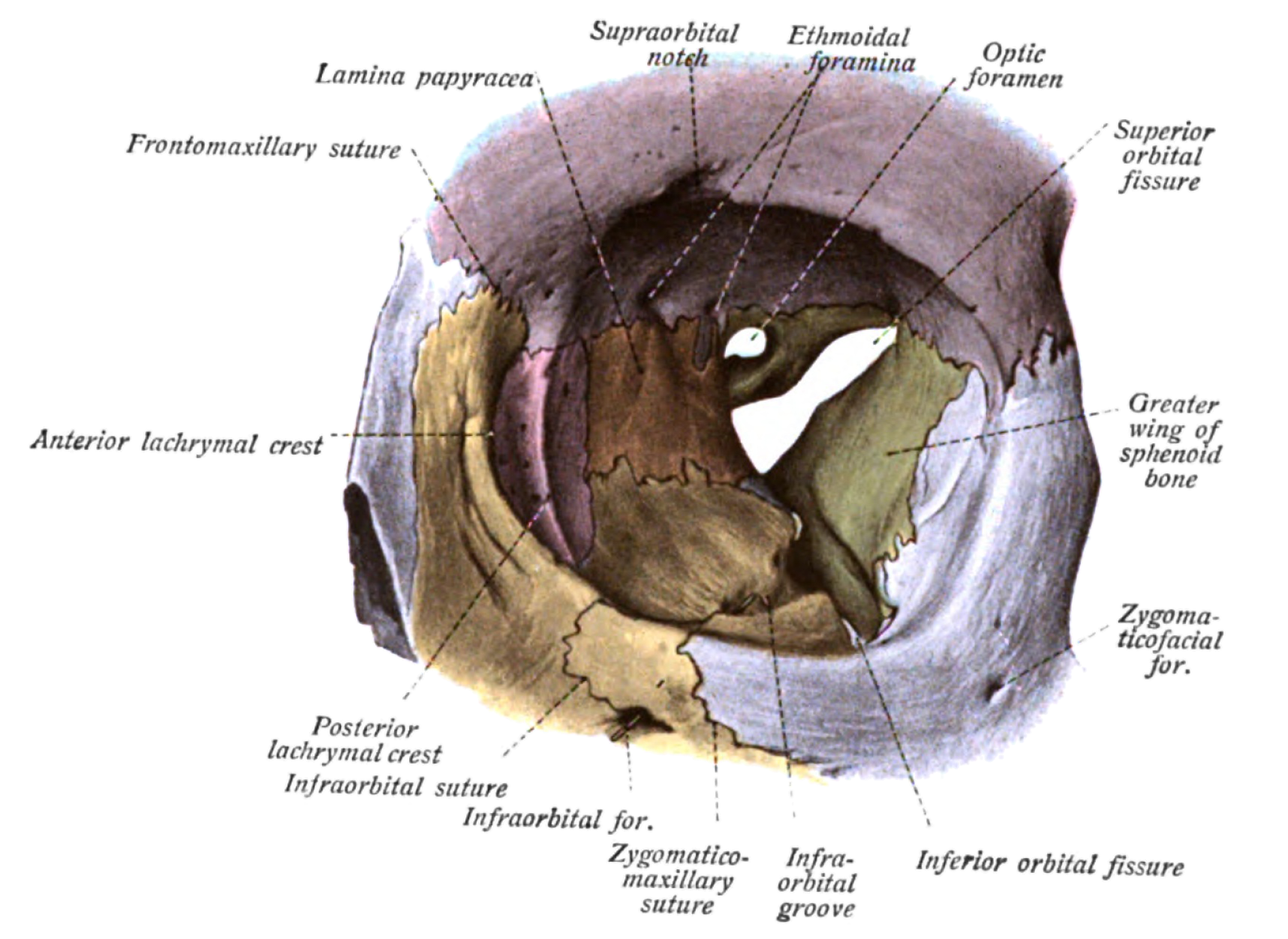 An illustration from the 1909 American edition of Sobotta's anatomy with English terminology